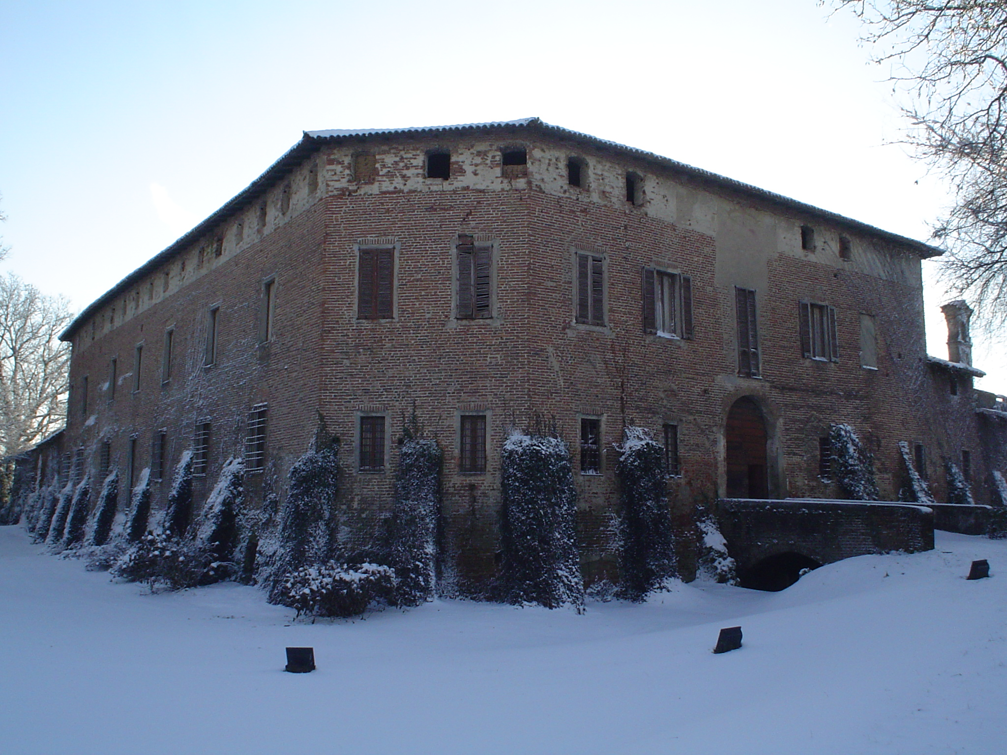 Douglas Scotti's Castle in Fombio, Italy, Winter 2005